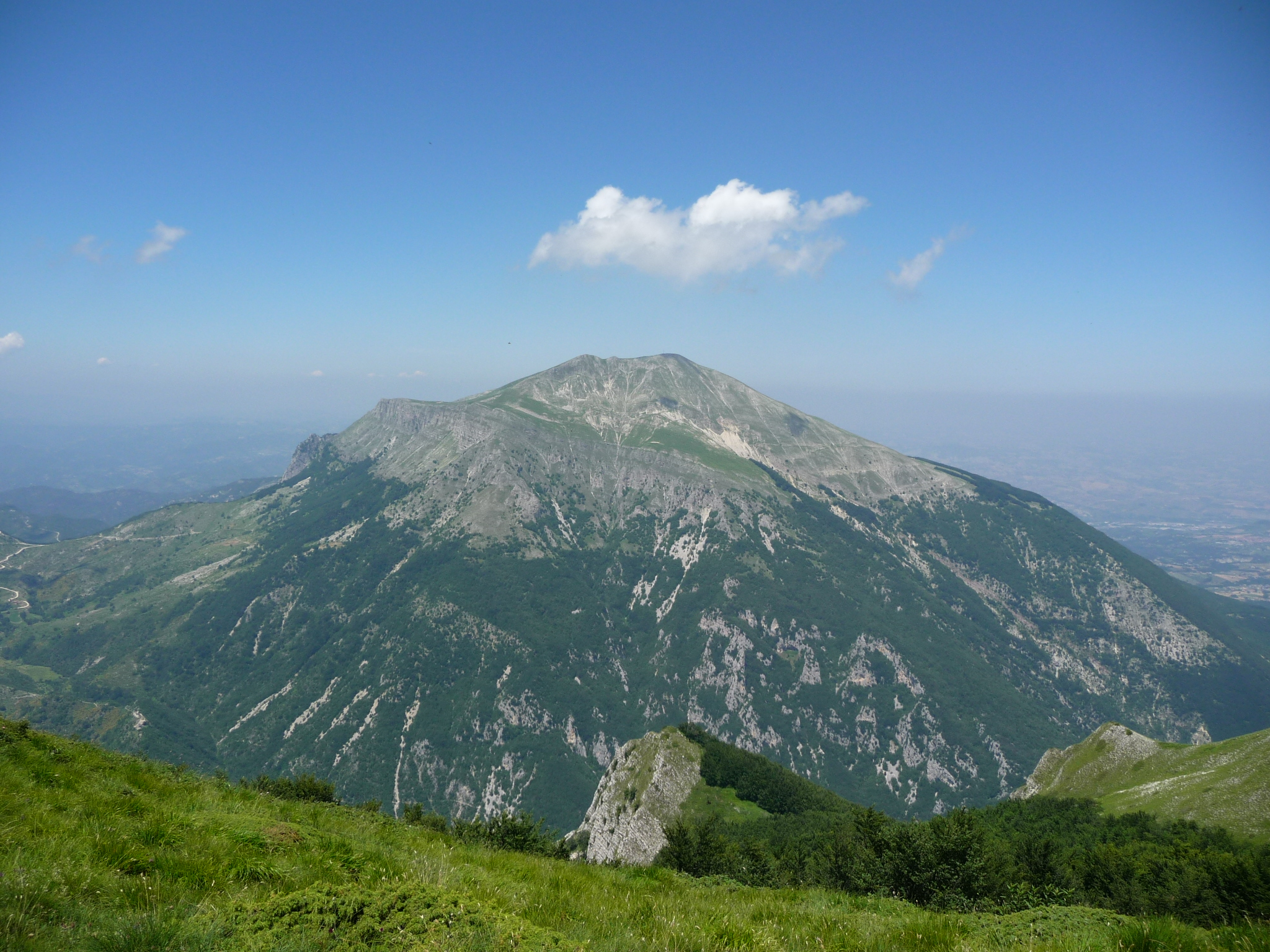 Montagna dei Fiori